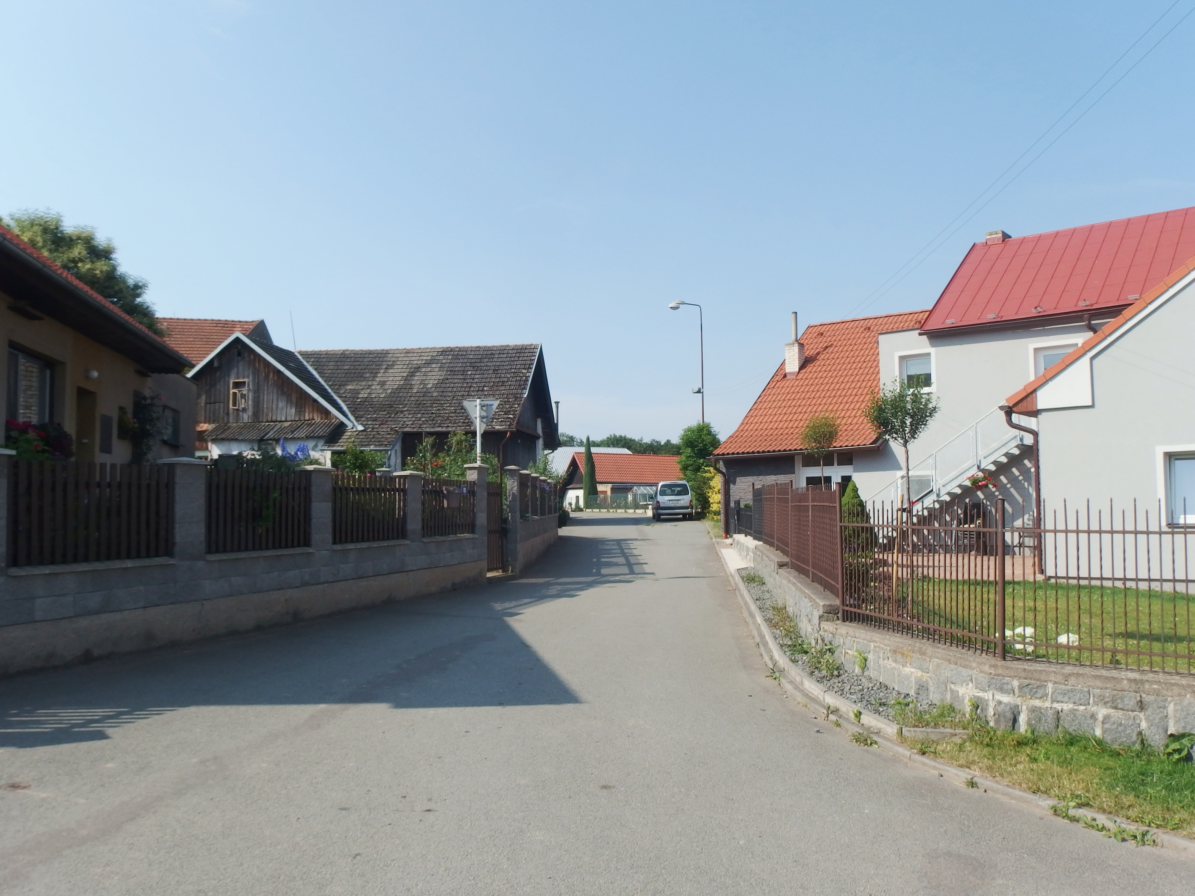 Perálec, Chrudim District, Czech Republic, part Kutřín.